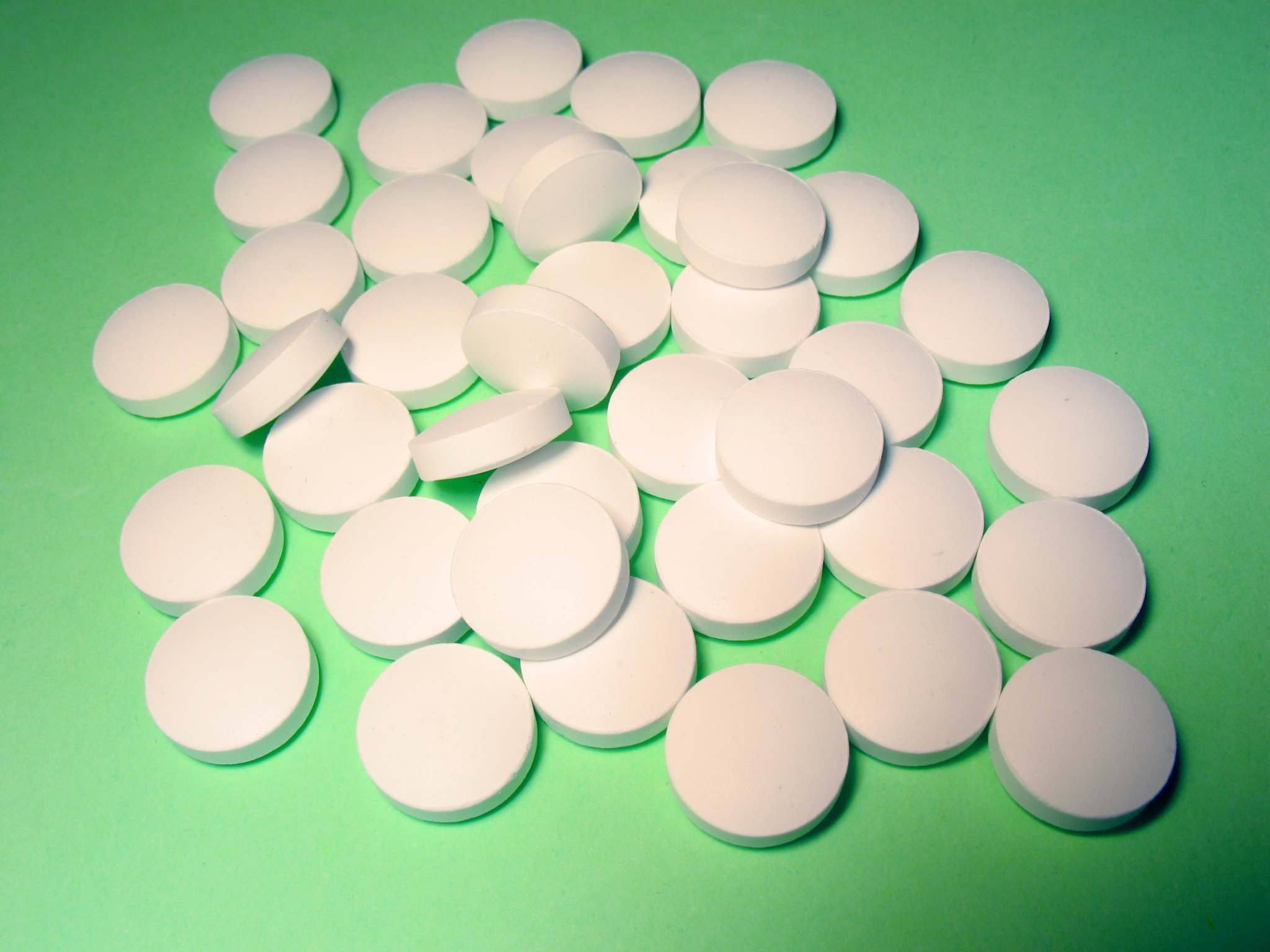 Round, biconvex white tablets that appear to be vitamin D-3.